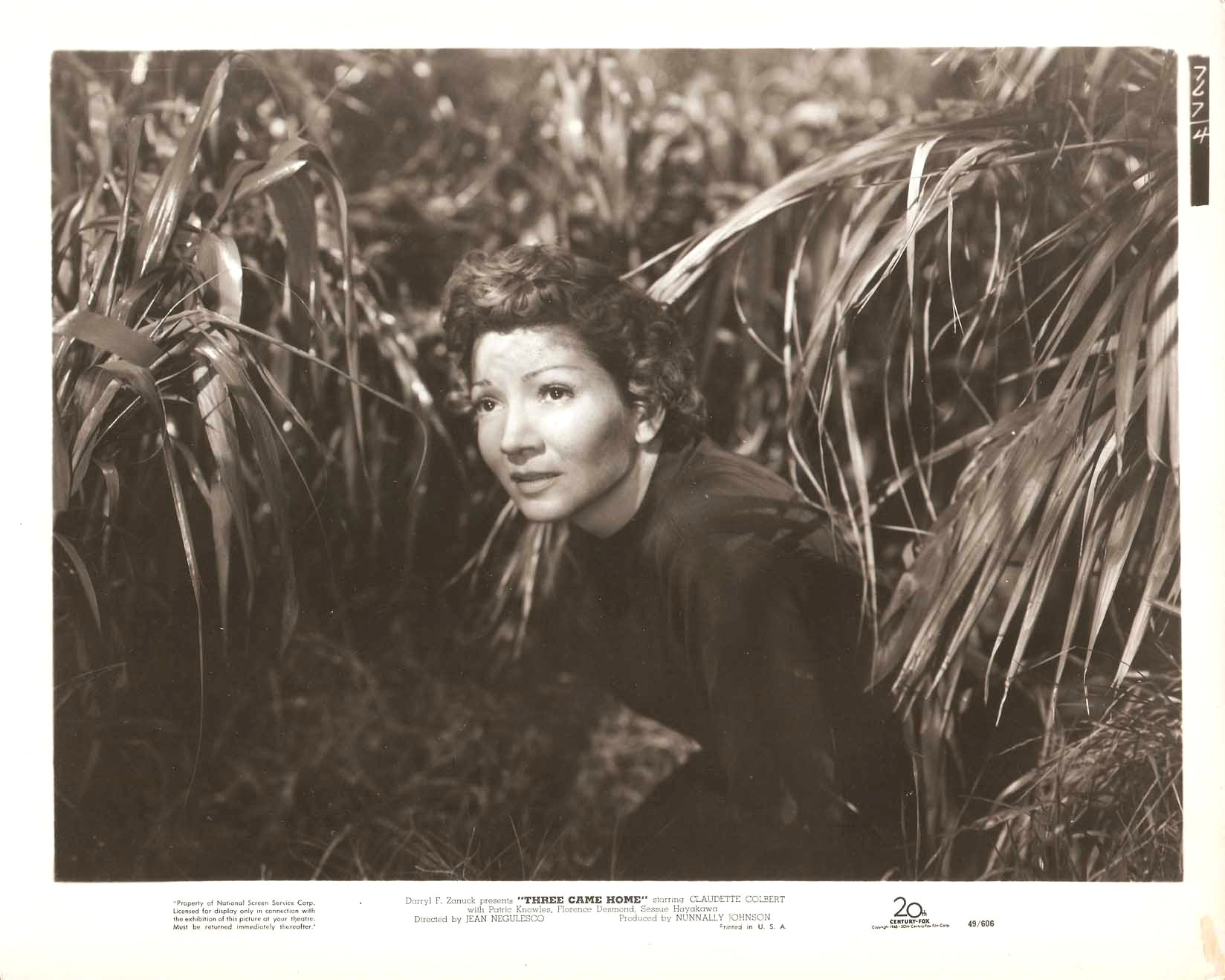 Promotional photo for the film Three Came Home (Claudette Colbert).